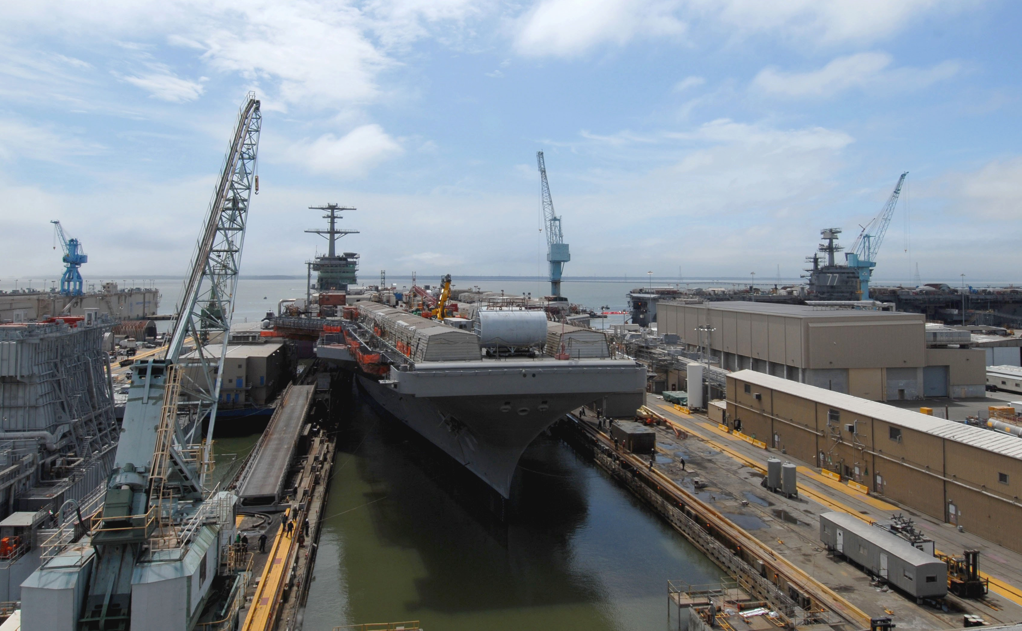 Tug boats pull USS Carl Vinson (CVN-70) out of dry dock as the aircraft carrier transits down the James River to a pier-side docking at Northop Grumman Newport News Shipyard in Virginia May 9, 2007. Carl Vinson is currently undergoing its scheduled refue ling complex overhaul, an extensive yard period that all Nimitz-class aircraft carriers go through near the mid-point of their 50-year life cycle.